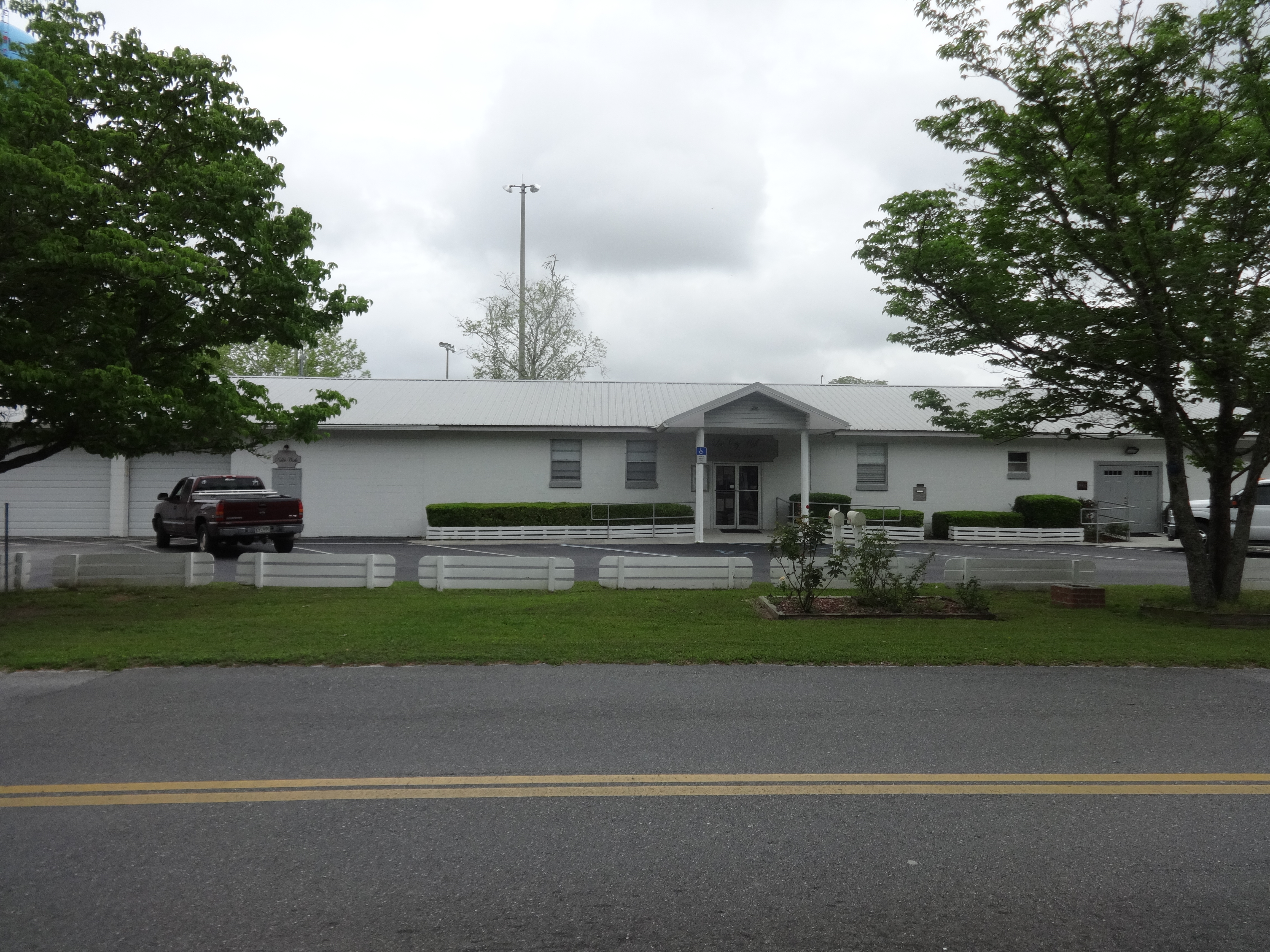 Lee City Hall, Lee, Madison County, Florida